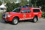 AHBVPA-VCOT 01